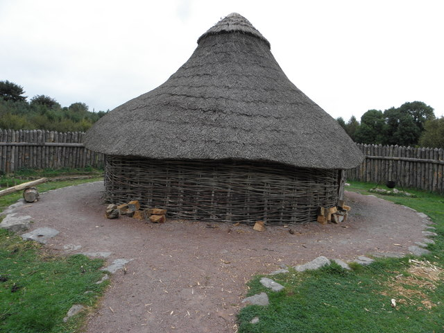 Navan Fort Armagh